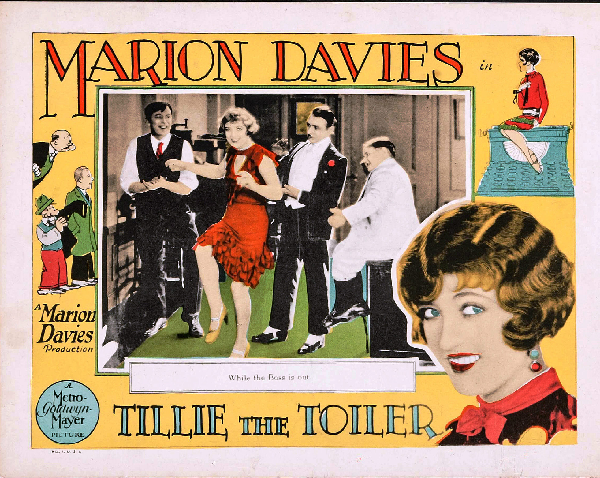 Lobby card for the American comedy film Tilie the Toiler (1927). There are no copyright marks on the item. At lower left is Made in USA.